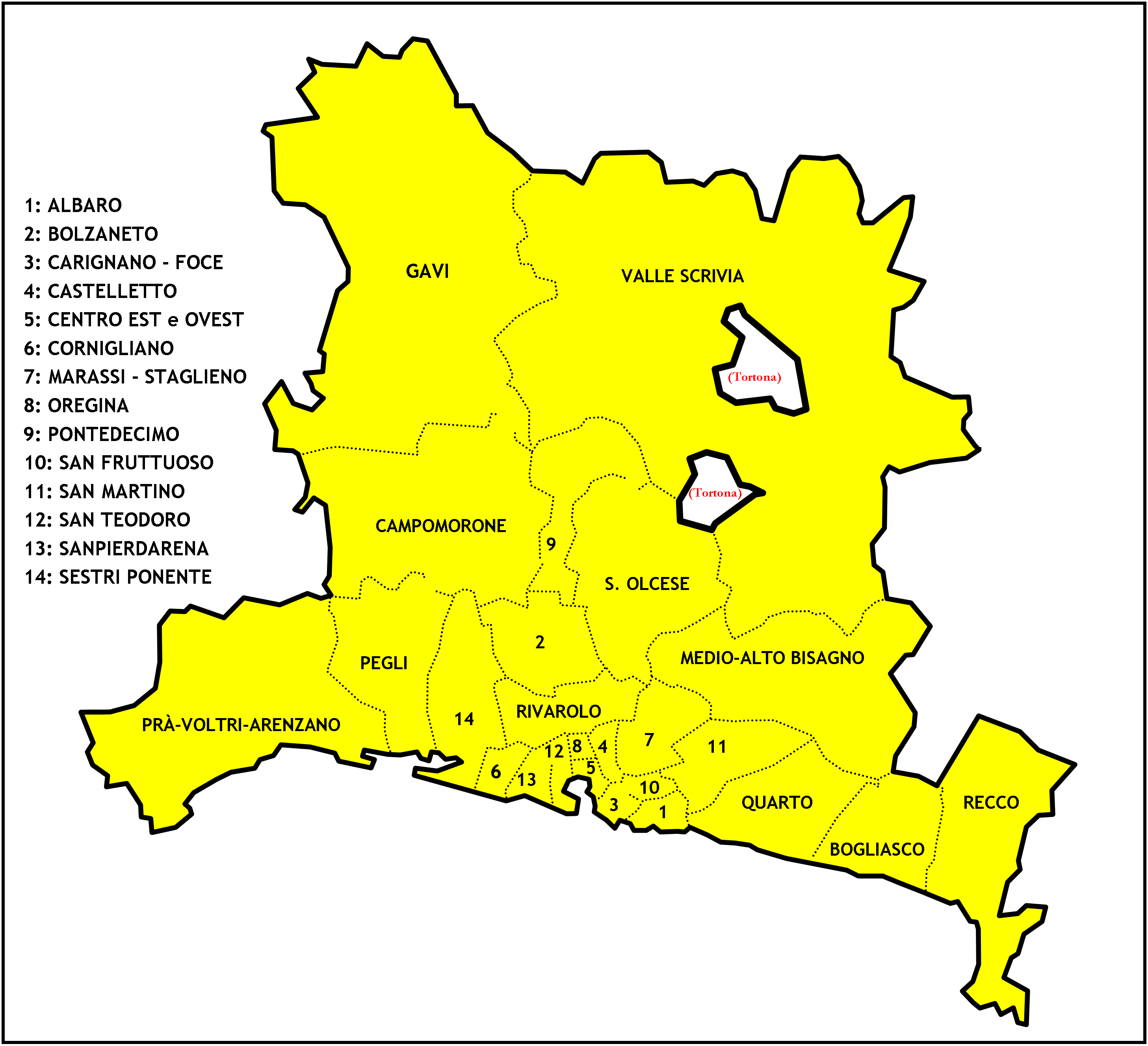 Map of Genoa's Diocese